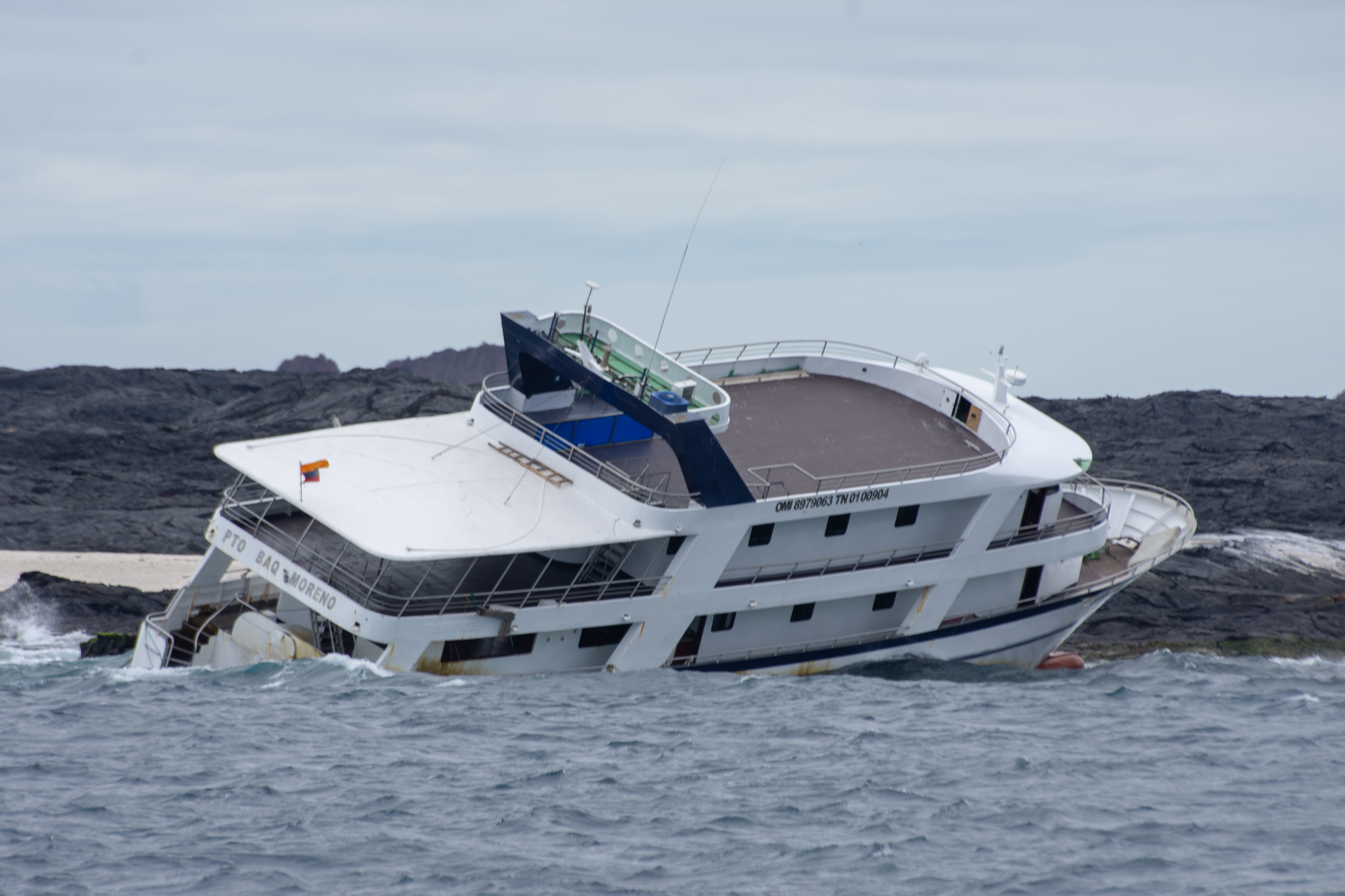 Maritime accident